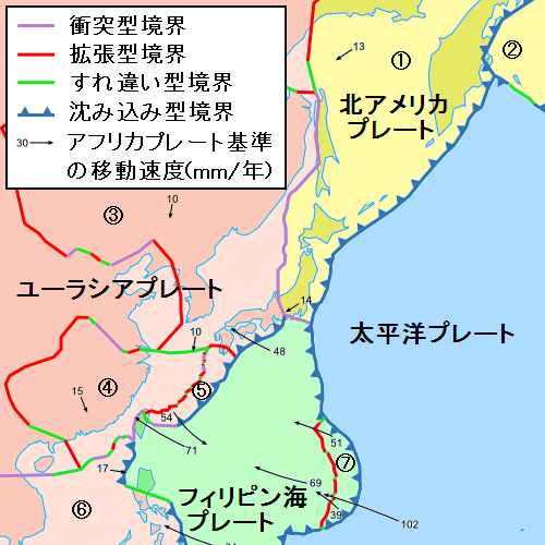 Map of Japan with tectonic plates.